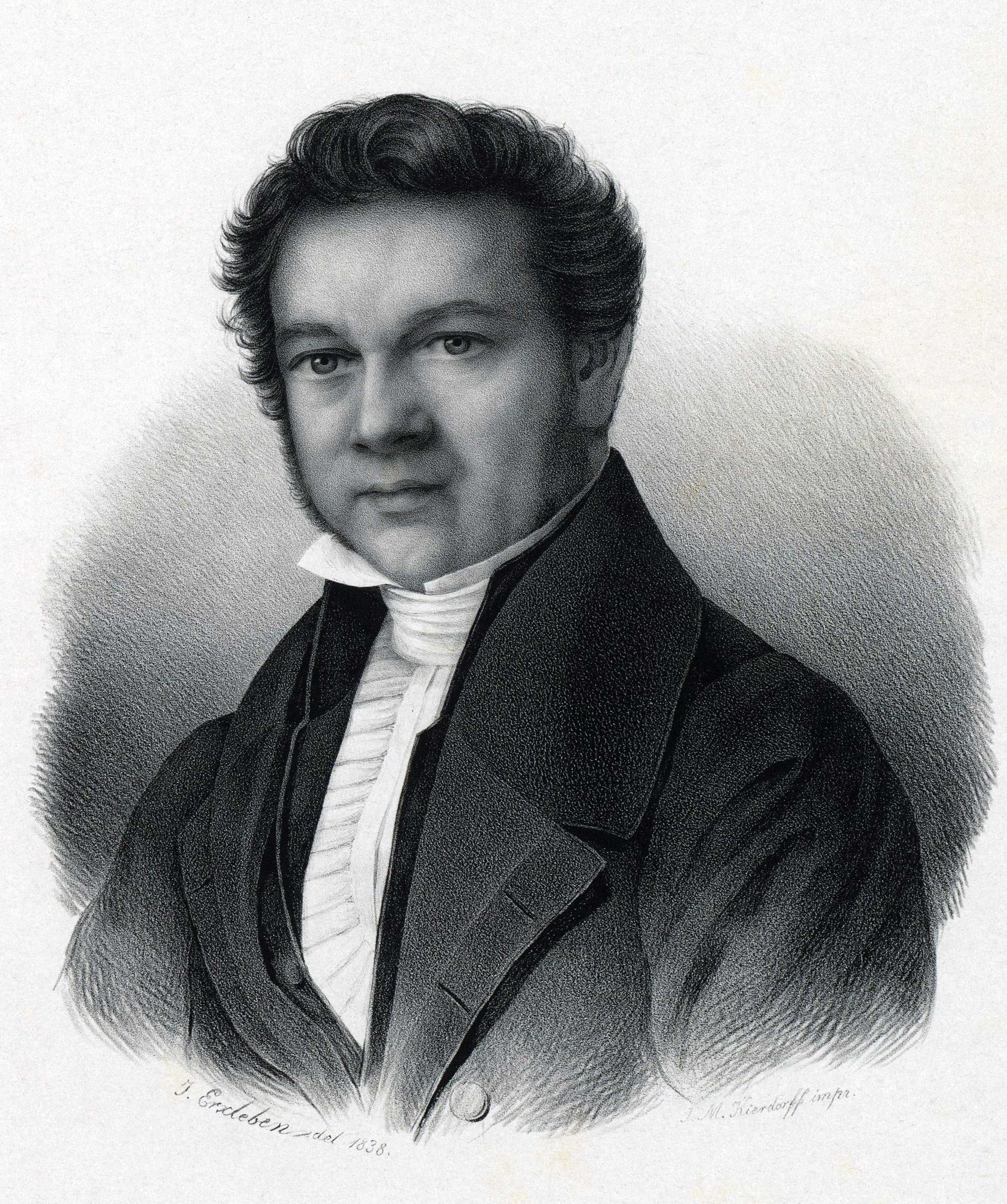 Jacobus Cornelis Broers (1795-1847), professor medicine Leiden University